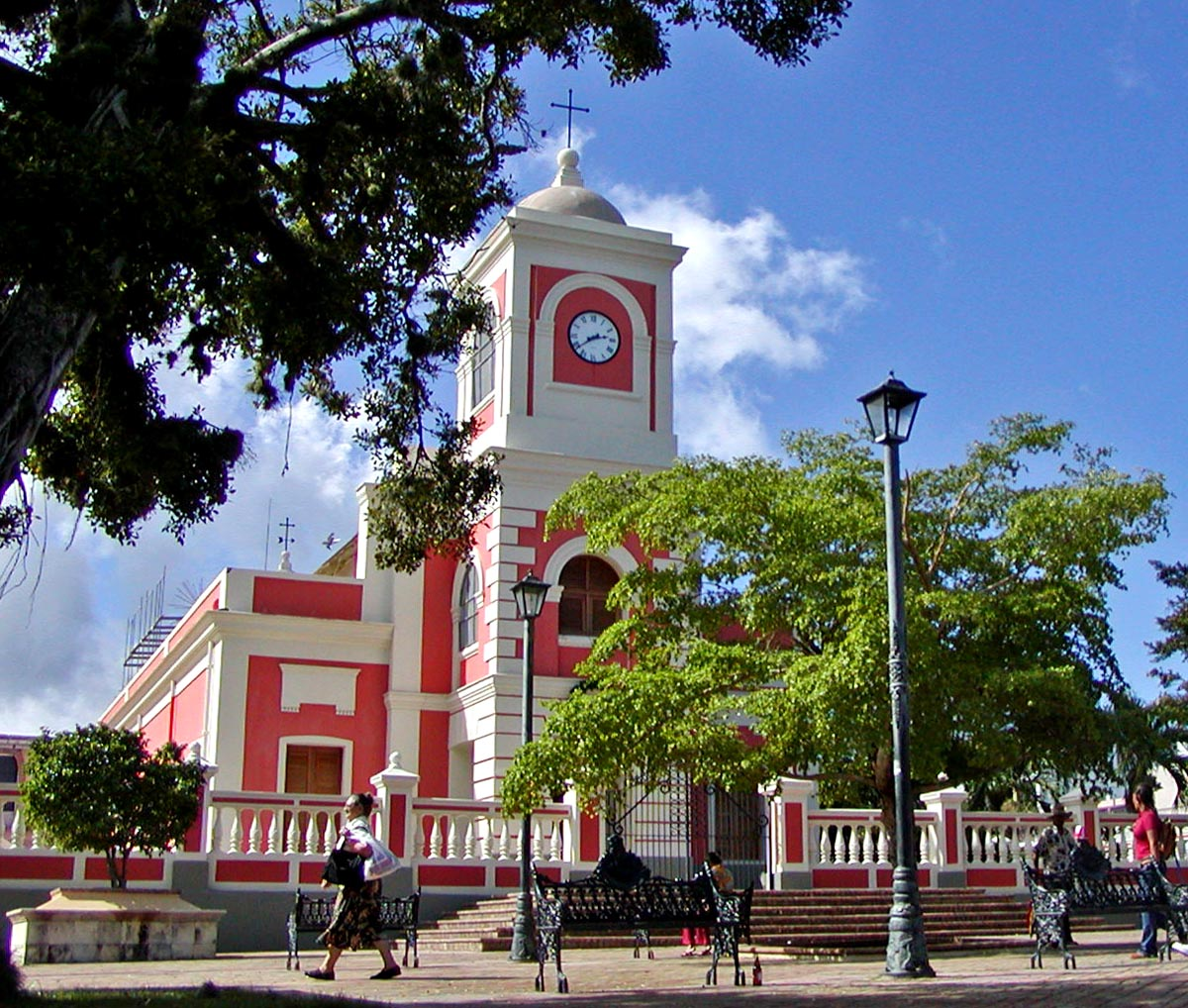 Photo of Fajardo, Puerto Rico church